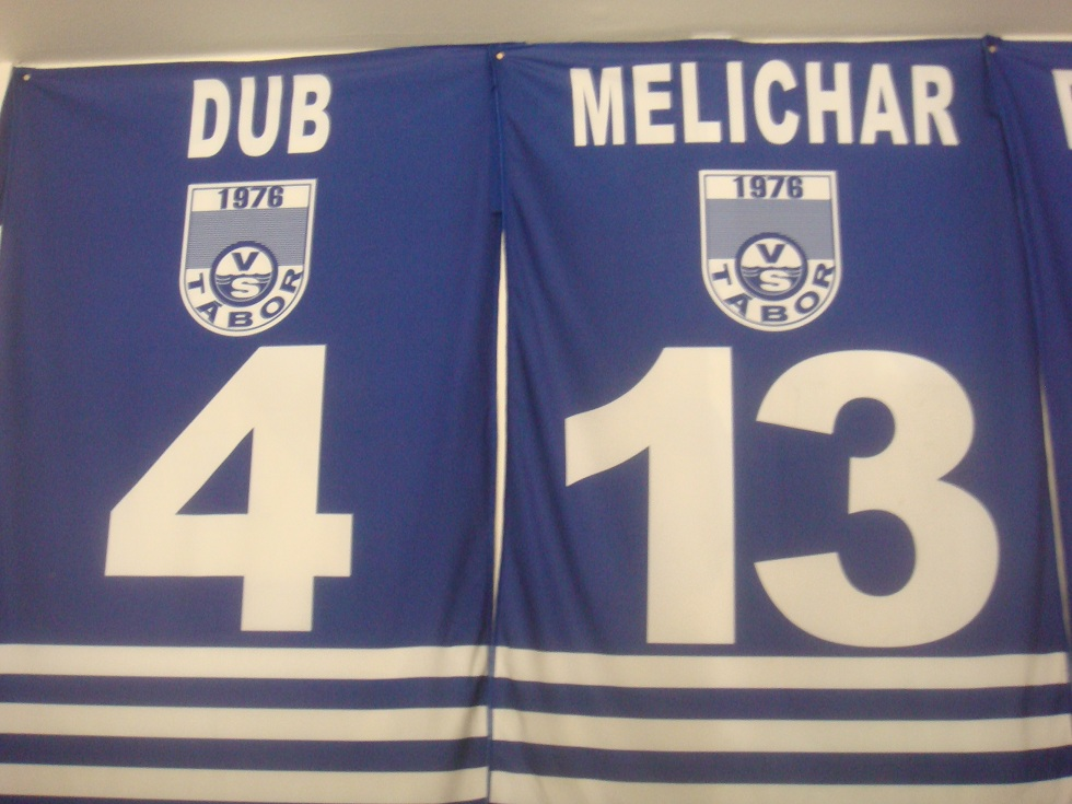 Vodni staby Tabor comemorative 1976 jersey Česky: Upomínkové modré dresy VS Tábor na zimním stadioně v Táboře